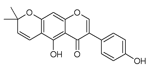 chemical structure of alpinumisoflavone